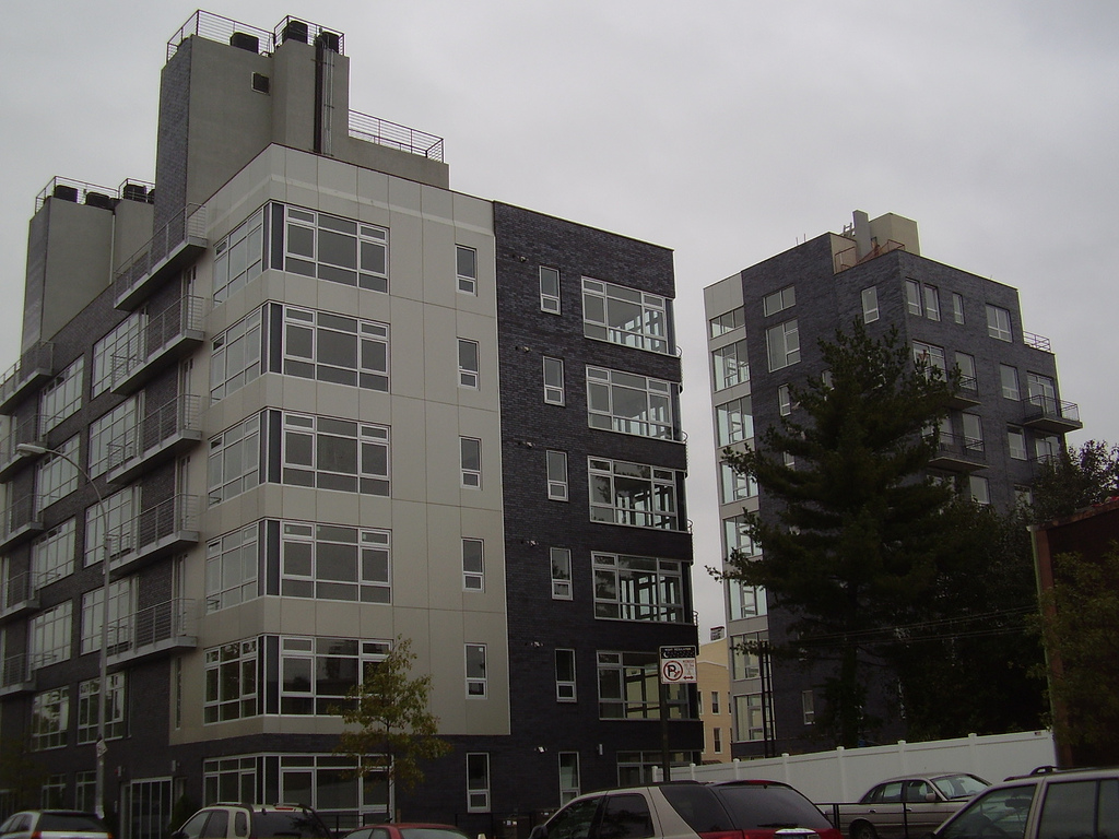 Condos being built in Greenpoint. I took this photo, and release it under .